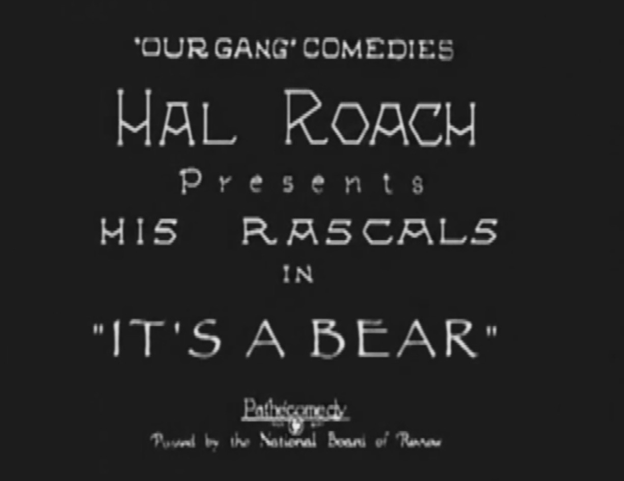 Title card for Our Gang film It's a Bear